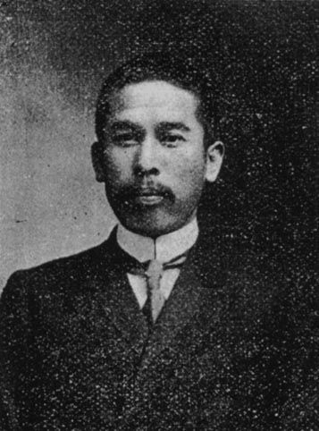 Mr. Toshitaka Fujii, professor of the Tokyo Women's Higher Normal School.